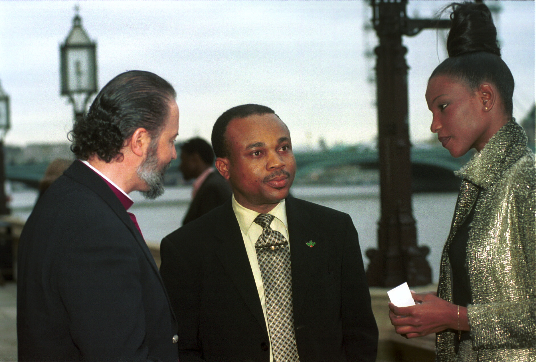 Agbani Darego Miss World from Nigeria at a Patti Boulaye Support for Africa event at the House of Commons